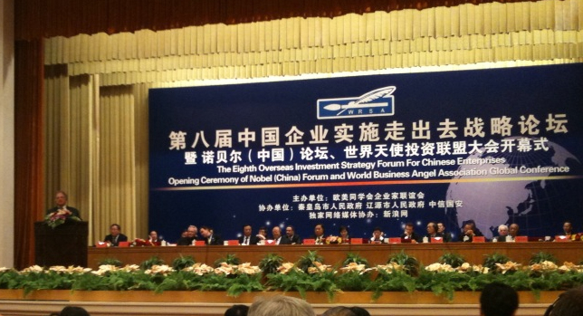 John May, Co-Chairman of the World Business Angel Association, addressed the delegates at the inaugural World Business Angel Association Global Conference at the Great Hall of the People. Beijing, China, on 06 December 2009.